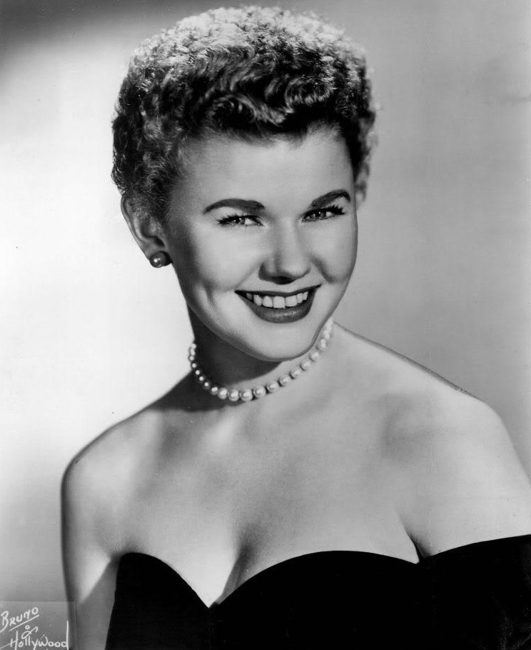 Photo of singer-actress Martha Wright.